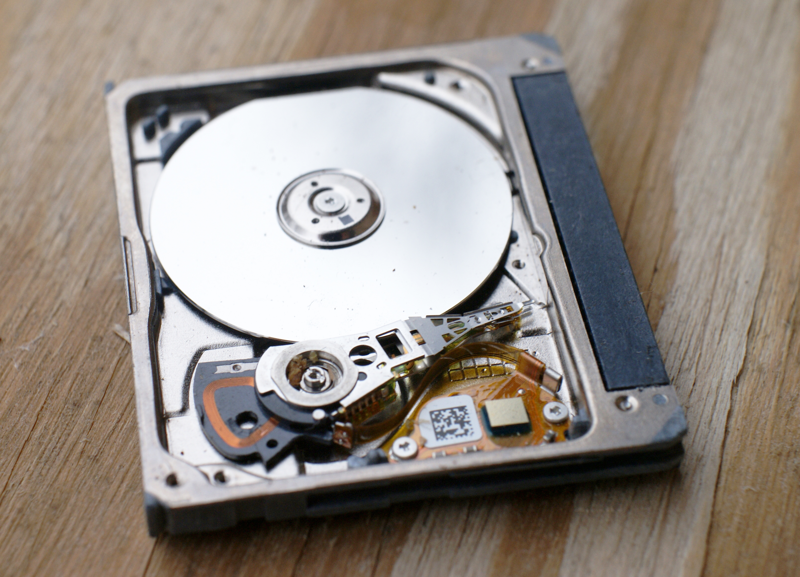 Inside a 1-inch Seagate ST1 Micro HDD